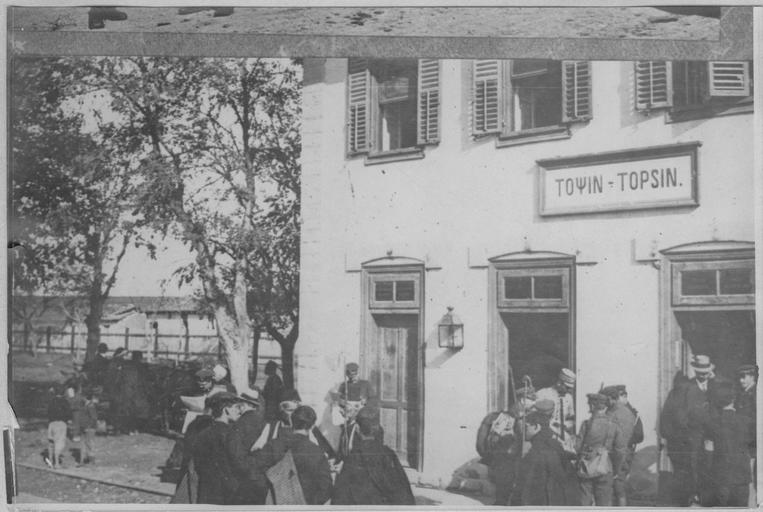 Topsin Station in WWI